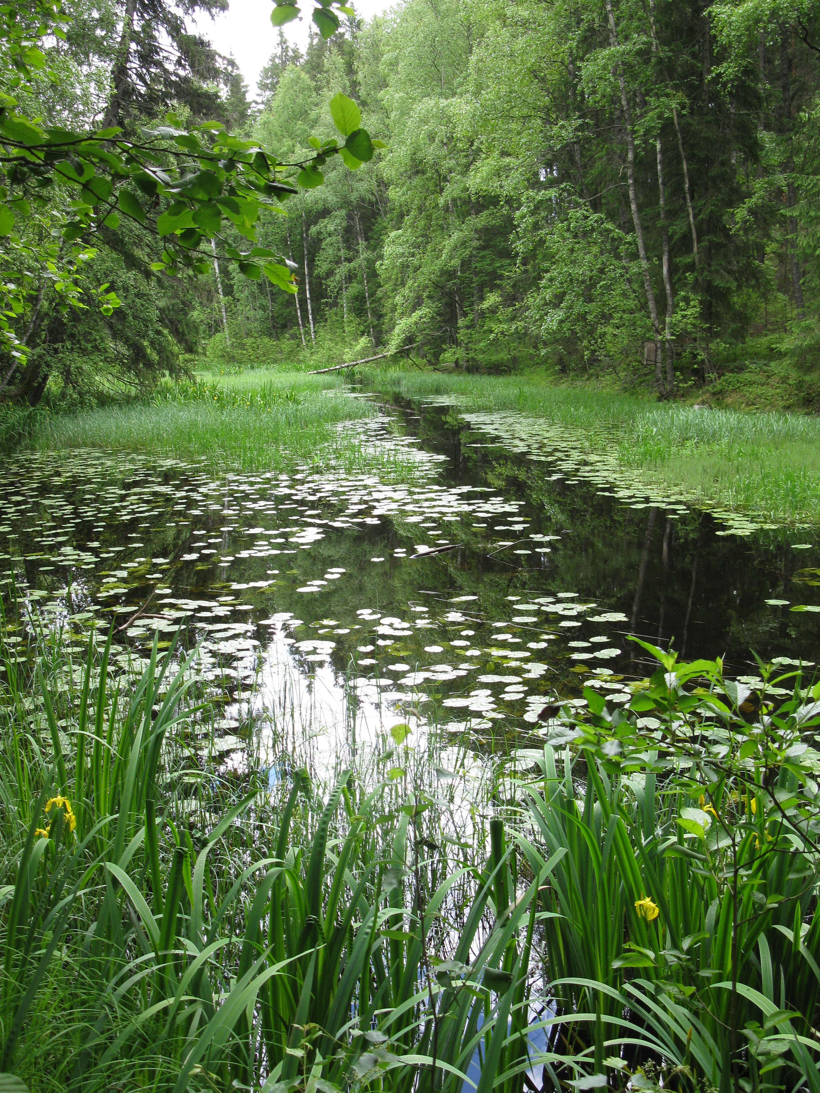 River Varesjoki above Vareskoski rapids near Varesjoki sawmill in Kiikala, Salo, Finland Proper, Finland